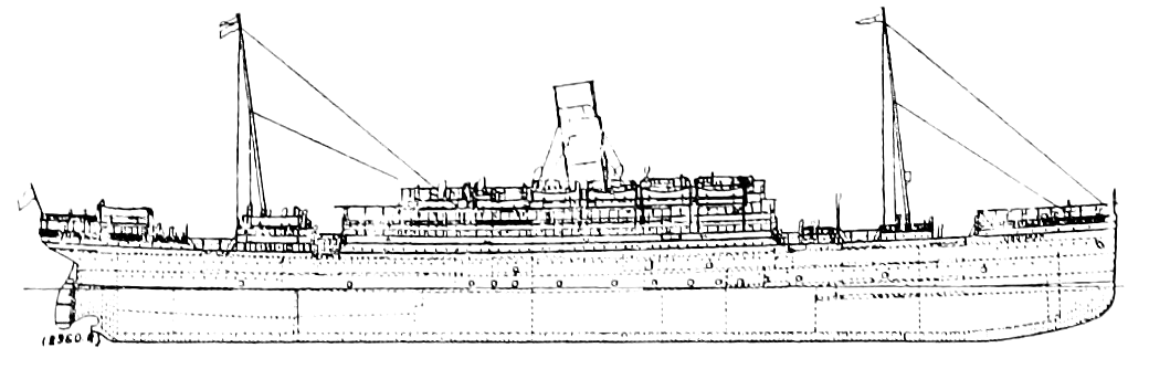 Diagram showing growth in the size of Turbine-propelled Merchant Ships. Figure 40 from The Steam Turbine, section showing the Virginian